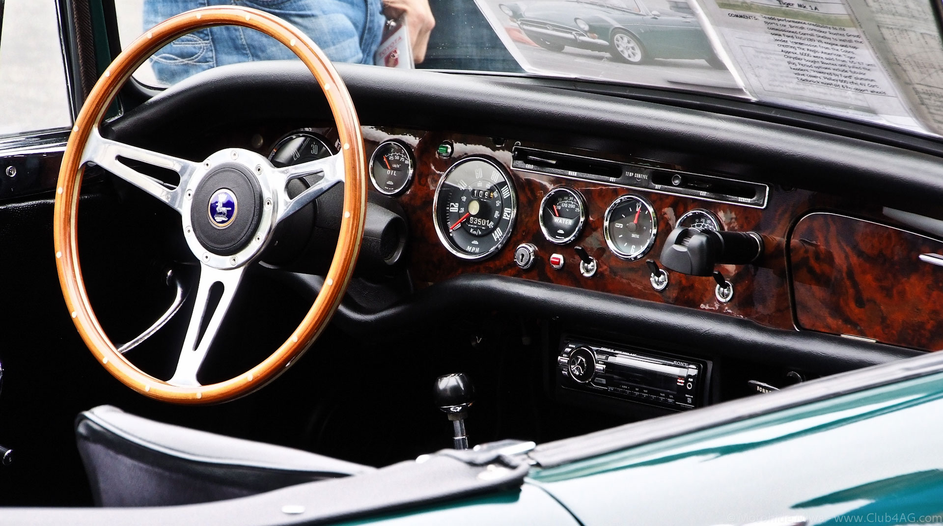 1960s left hand drive Sunbeam Tiger dash (cropped)